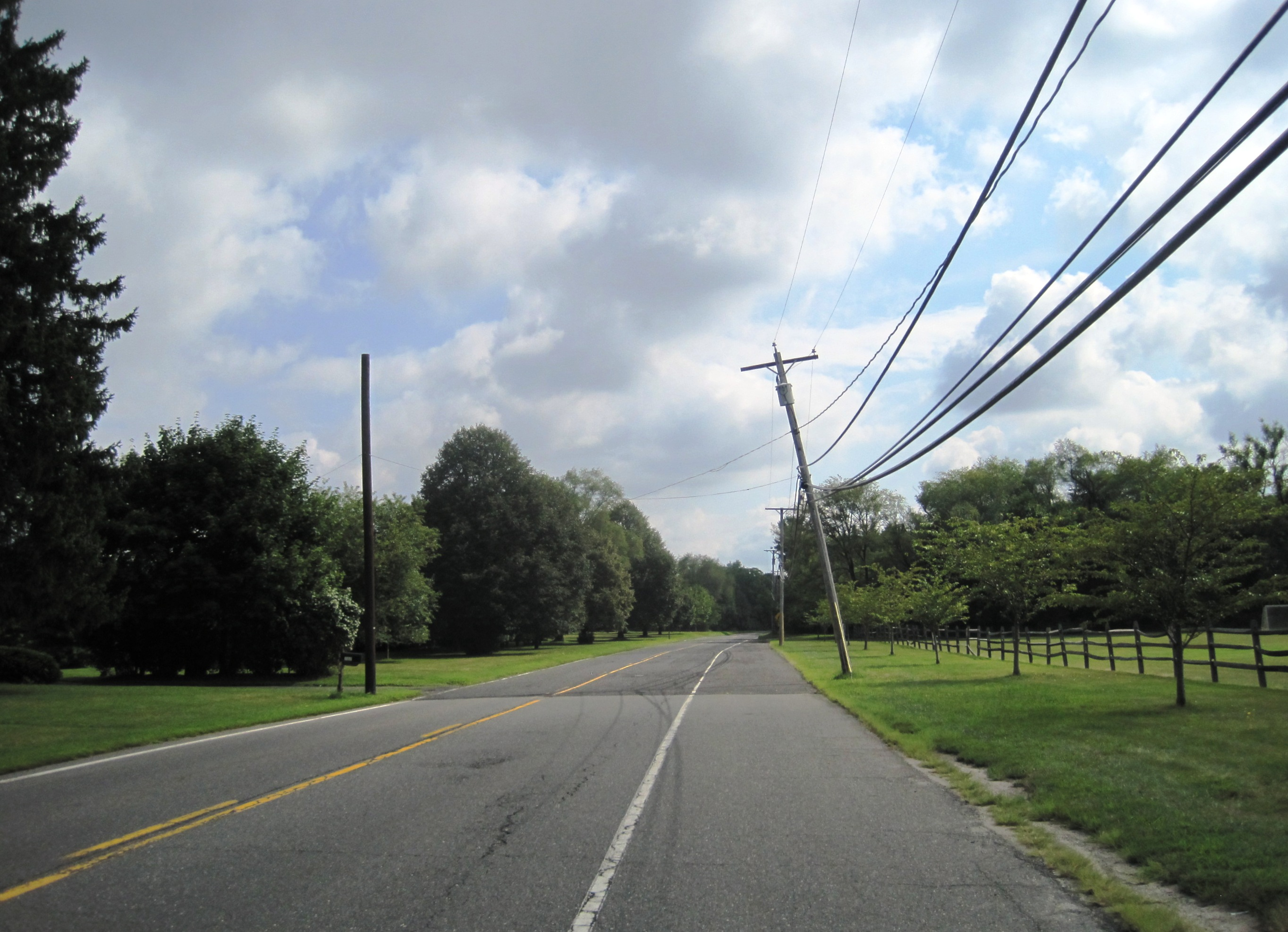 Photo of Ely, New Jersey, an unincorporated community within Millstone Township. Photo taken along eastbound Stage Coach Road (County Route 524) past Stillhouse Road.